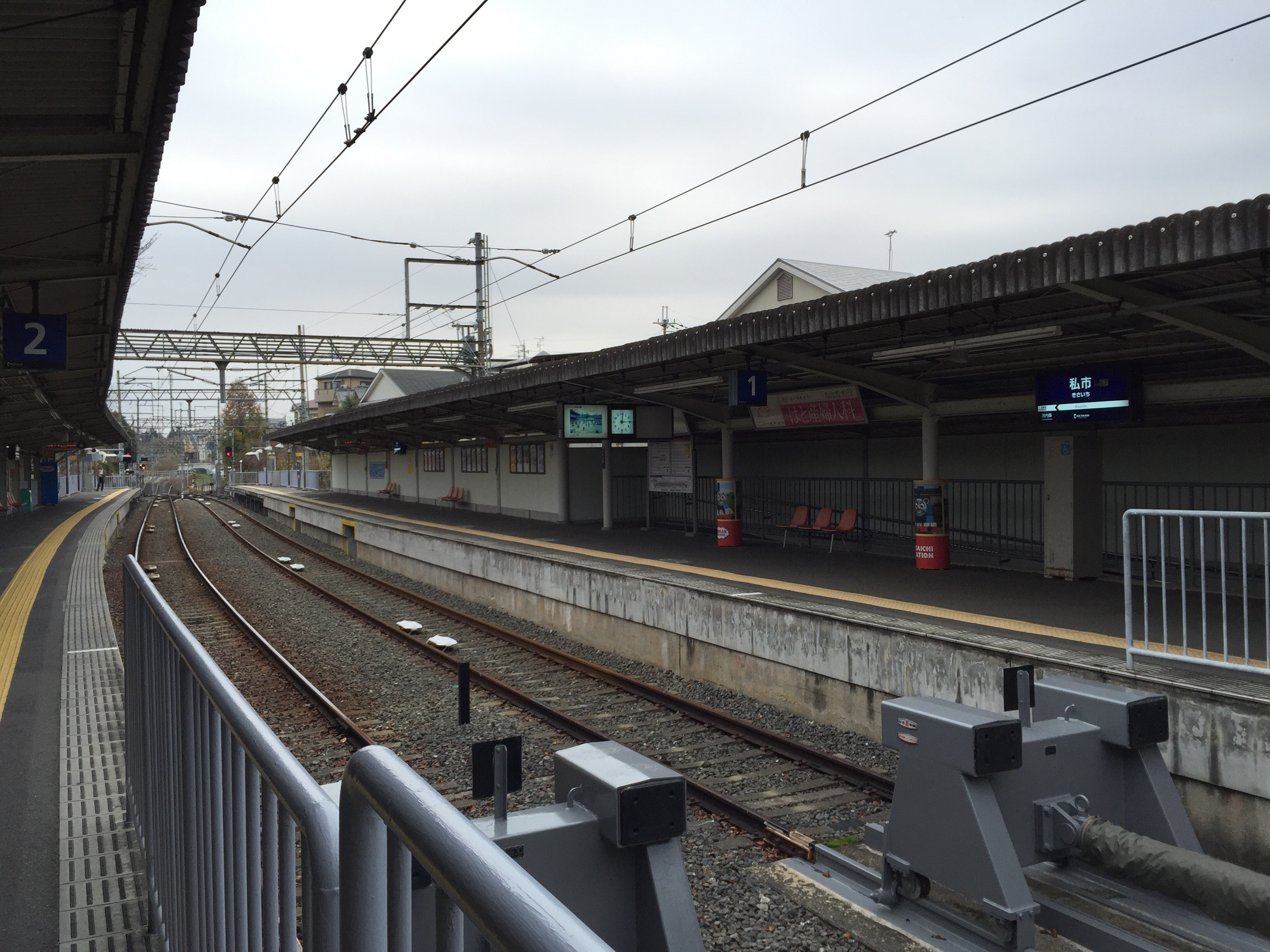 Keihan Kisaichi station platforms